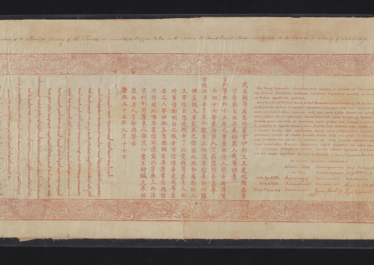 The "Red Manifesto": the Kangxi Emperor had sent Jesuit embassies to Europe in 1706 and 1708 seeking to reverse Pope Clement XI's 1704 decree Cum Deus Optimus..., which had condemned Confucian rituals as antithetical to Christianity and forbidden churches to display the imperial plaques in Kangxi's handwriting admonishing parishioners to "Revere Heaven". Nothing had been heard from these missions. In 1716, the Kangxi Emperor decided to send an open letter to be given to foreign merchants returning to Europe, enquiring about their fate. The text is in Manchu, Chinese, and Latin.